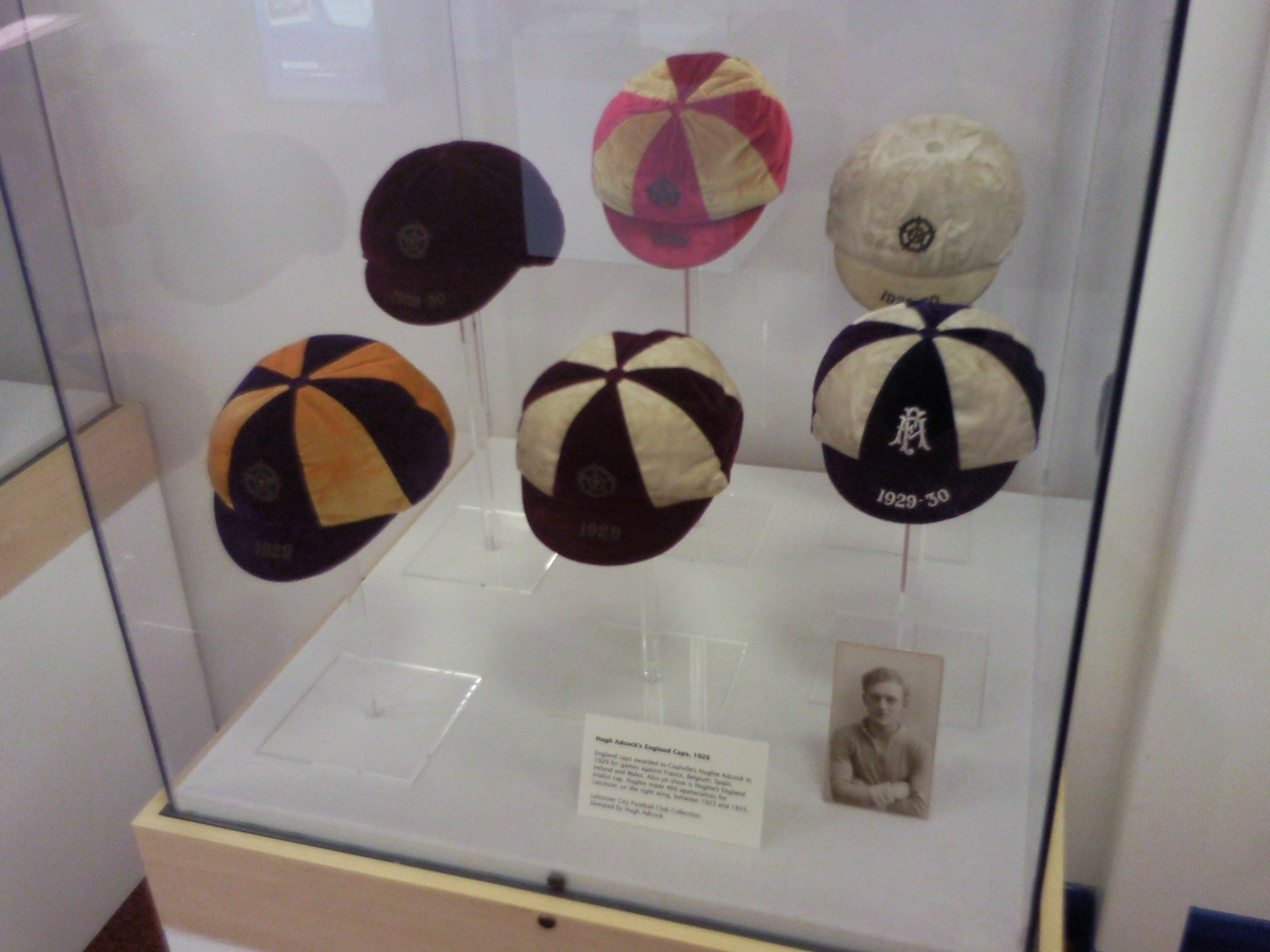 International caps won by Hugh Adcock on display at an exhibition in Coalville in January 2010. Image taken by myself.